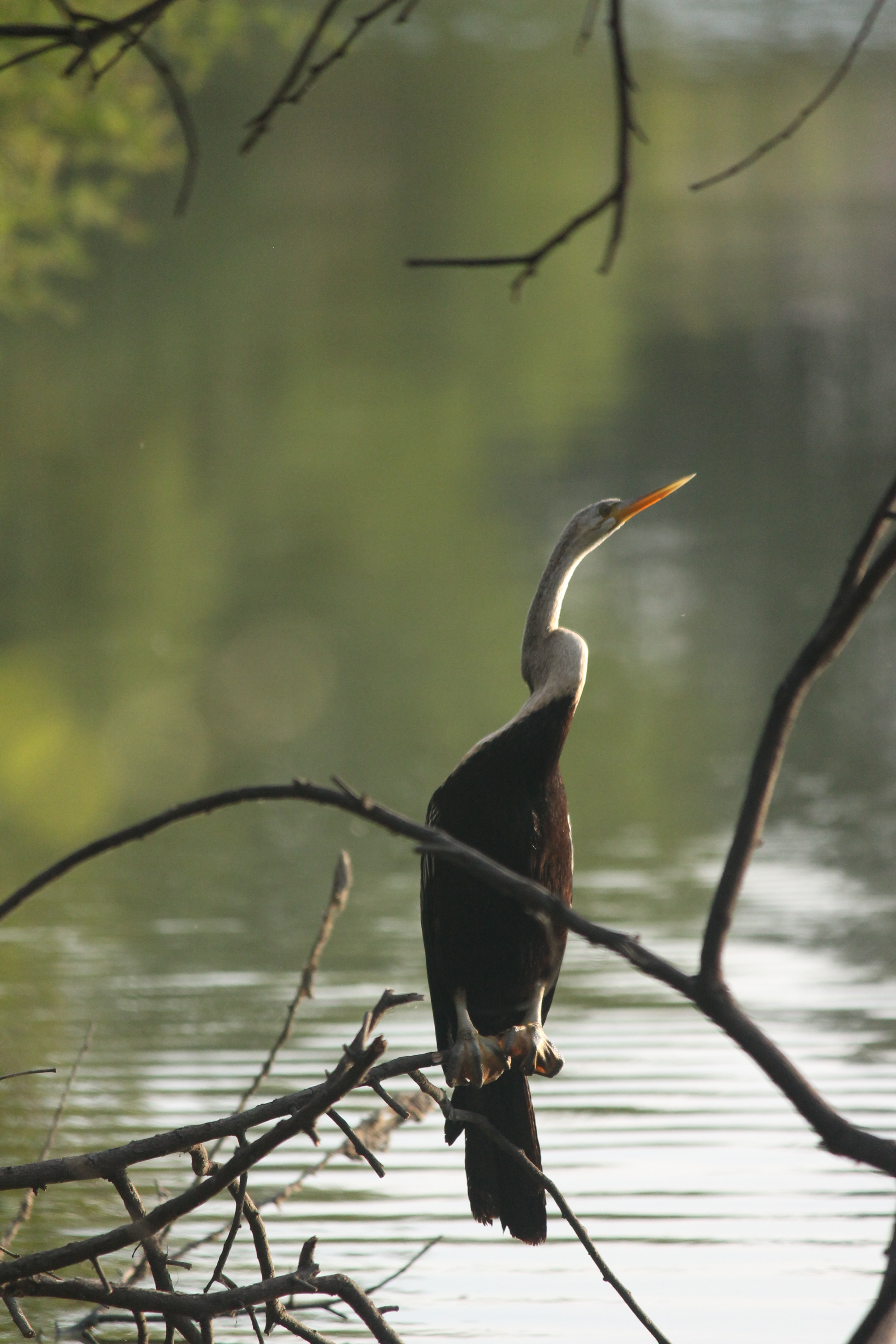 Snake Bird (Darter), Keoladev National Park, Bharatpur, Rajasthan. Picture taken by Vishal I Patil.